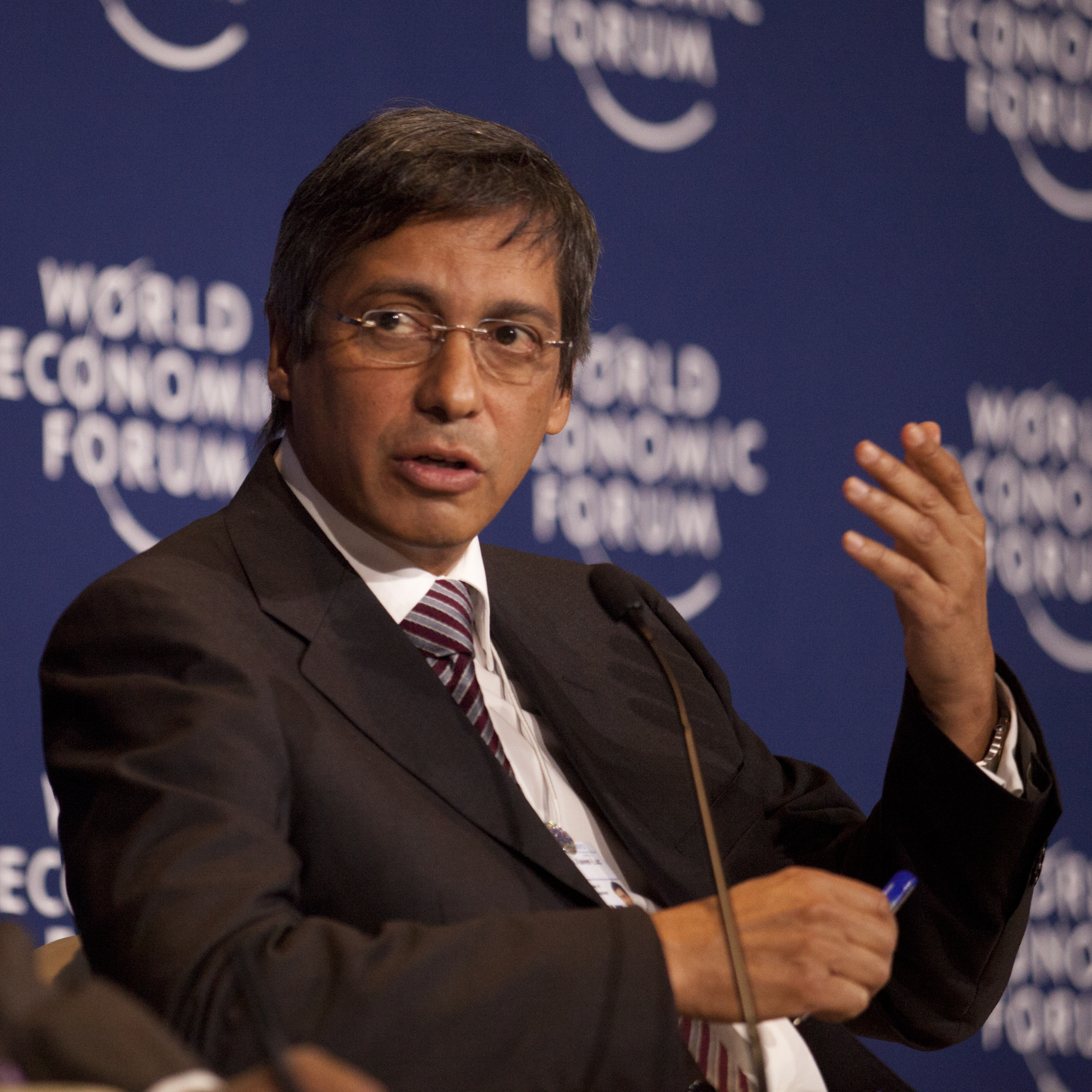 ADDIS ABABA/ETHIOPIA, 09-11 MAY 2012 - Charles Gaëtan Xavier-Luc Duval, Vice-Prime Minister and Minister of Finance and Economic Development of Mauritius, captured during the South South Relations Session at the World Economic Forum on Africa held in Addis Ababa, Ethiopia, 9-11 May, 2012.